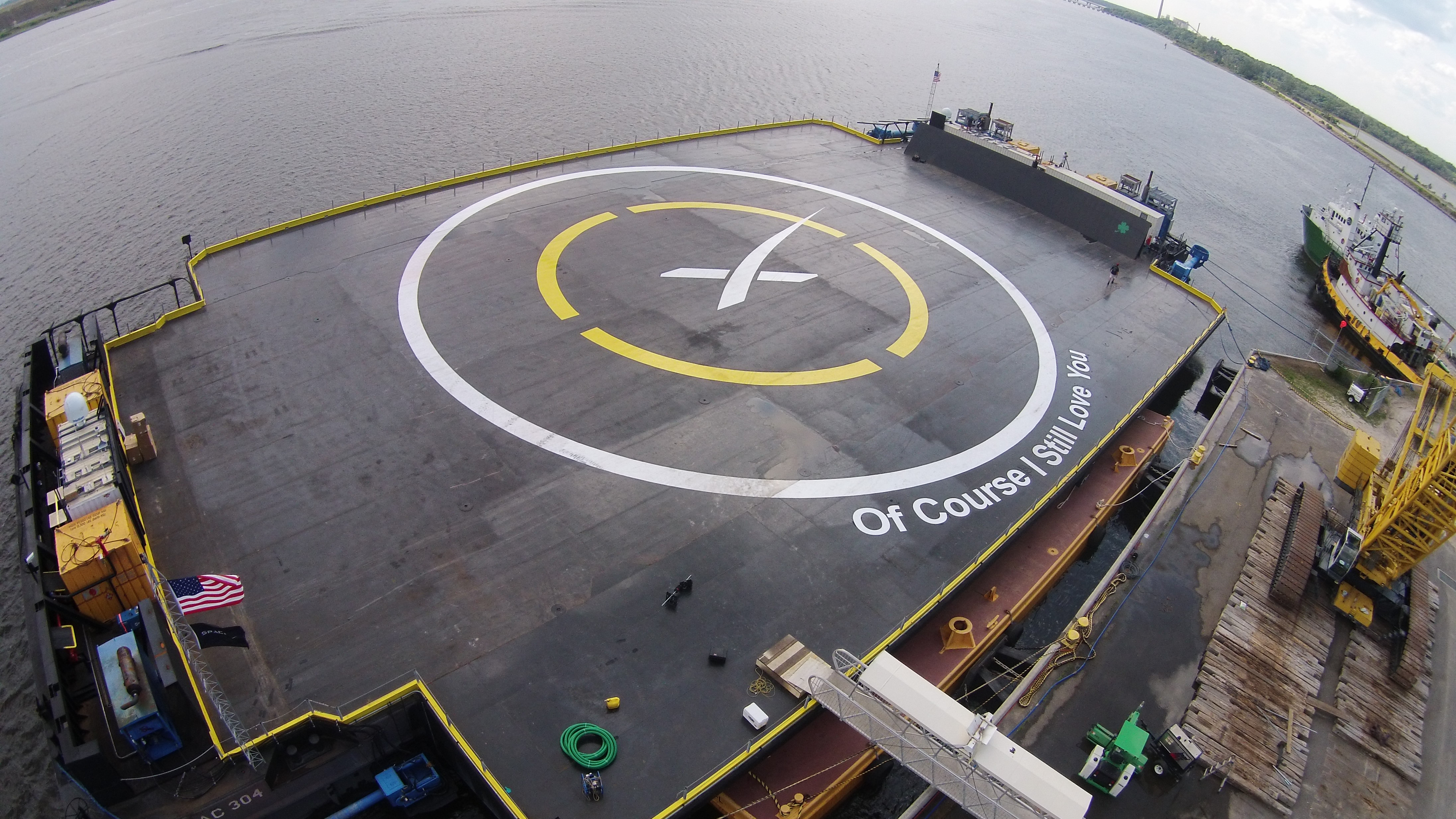 SpaceX's new autonomous spaceport drone ship Of Course I Still Love You, built on the Marmac 304 ocean-going barge. This barge replaces the previously used Marmac 300-based Just Read the Instructions as the East Coast ASDS.